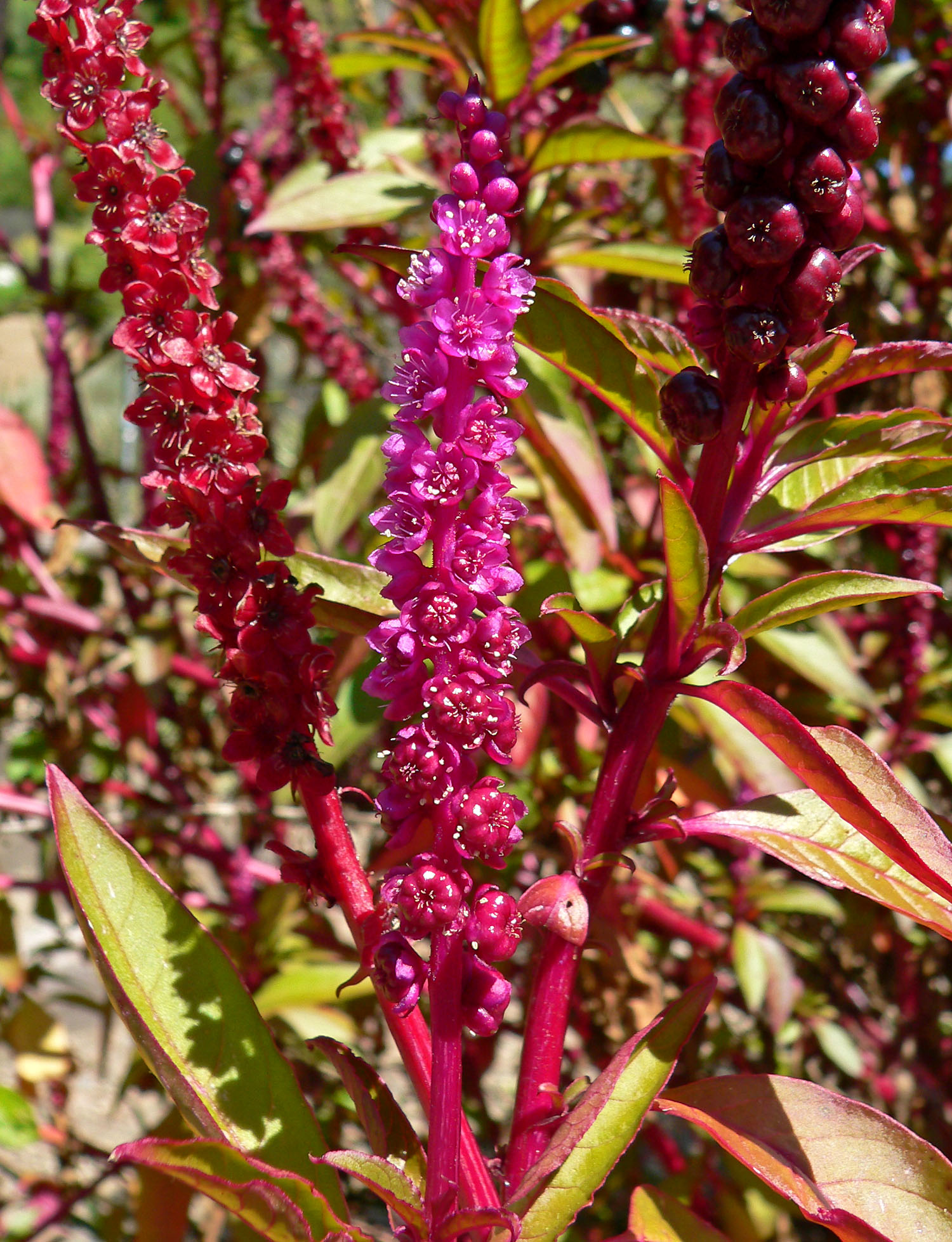 Phytolacca icosandra at the University of California Botanical Garden, Berkeley, California